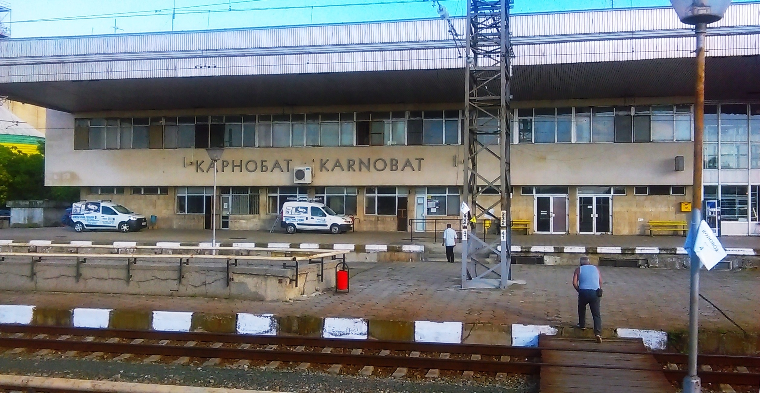 Karnobat railway station